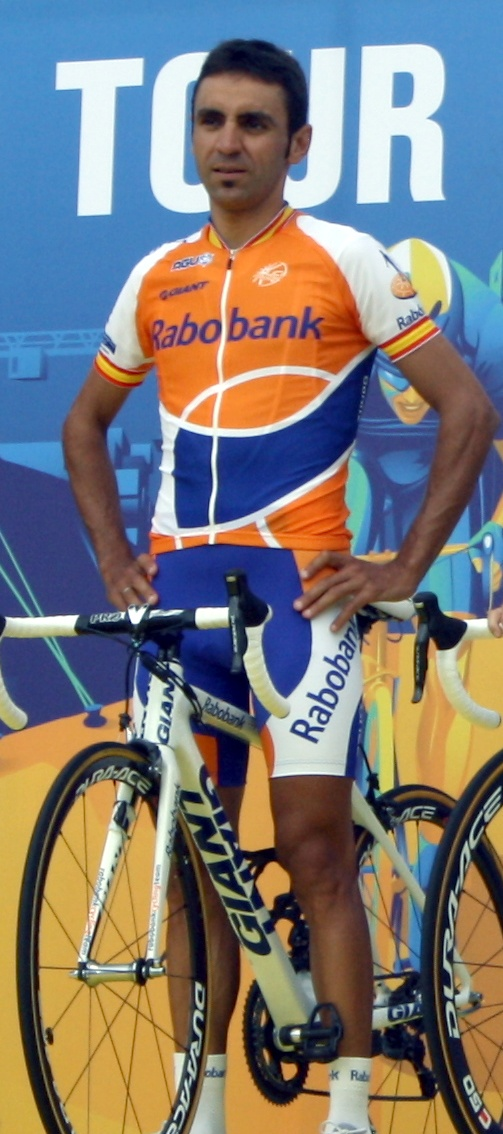 Juan Manuel Gárate at the team presentation of the 2010 Tour de France in Rotterdam